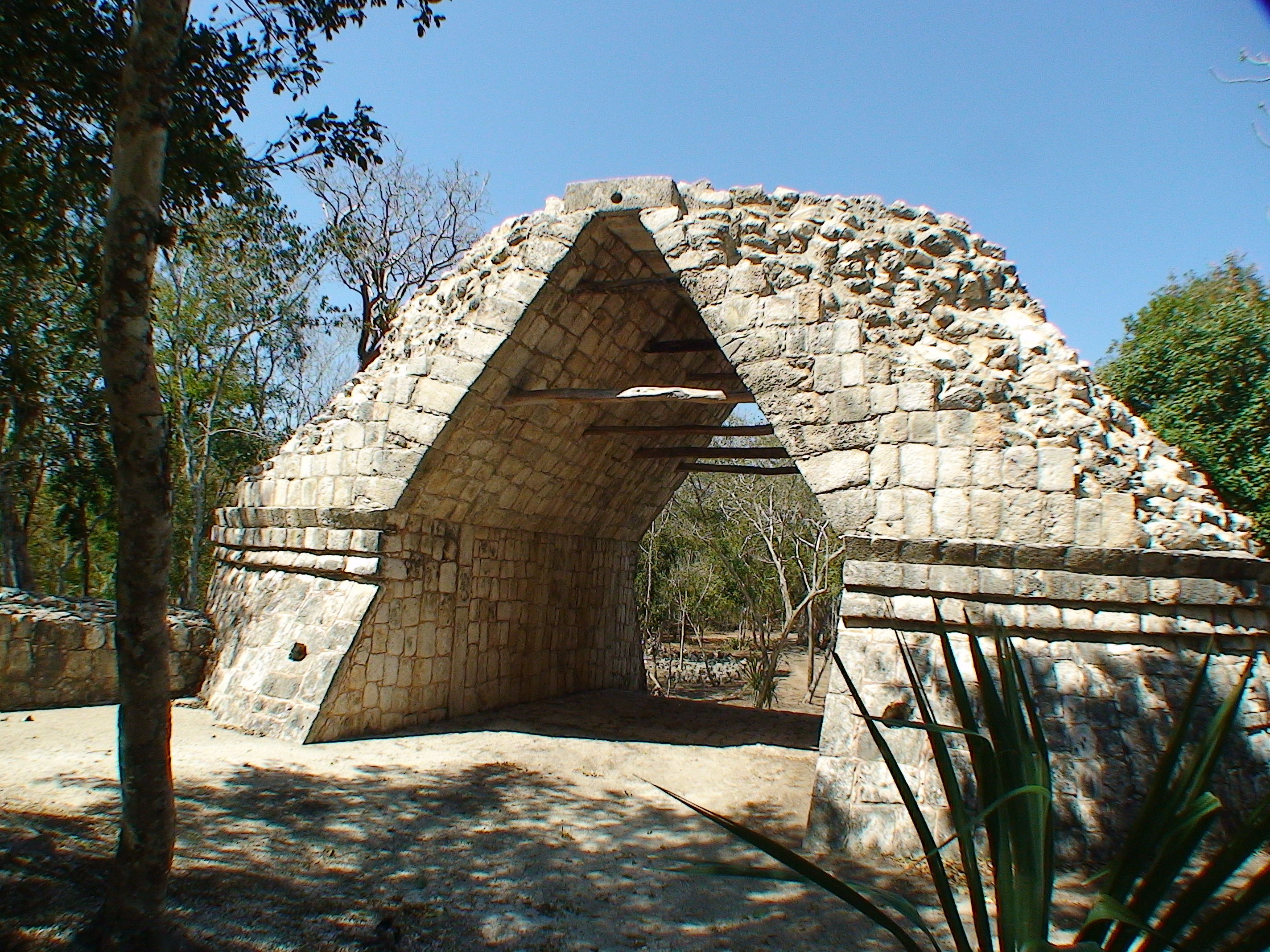 Chichen Itza, Yucatan, Mexico: Entrance arch to the Group of the Initial Series